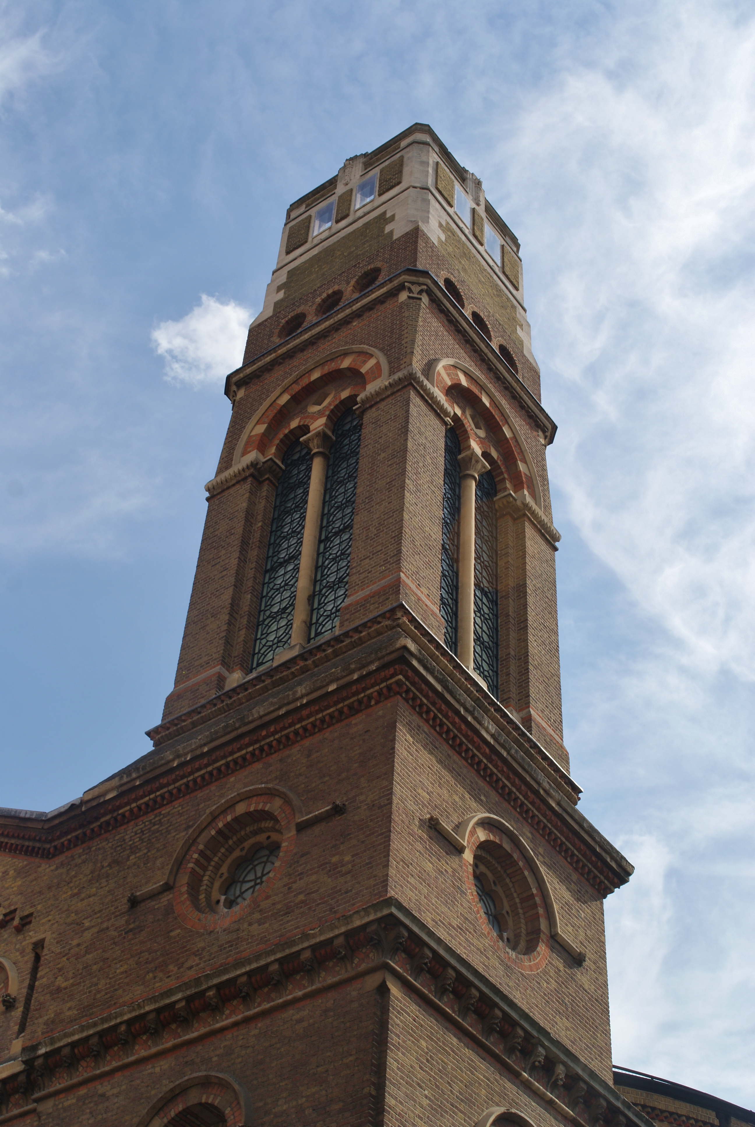 North tower of Westminster Chapel, Buckingham Gate, London SW1, seen from the west